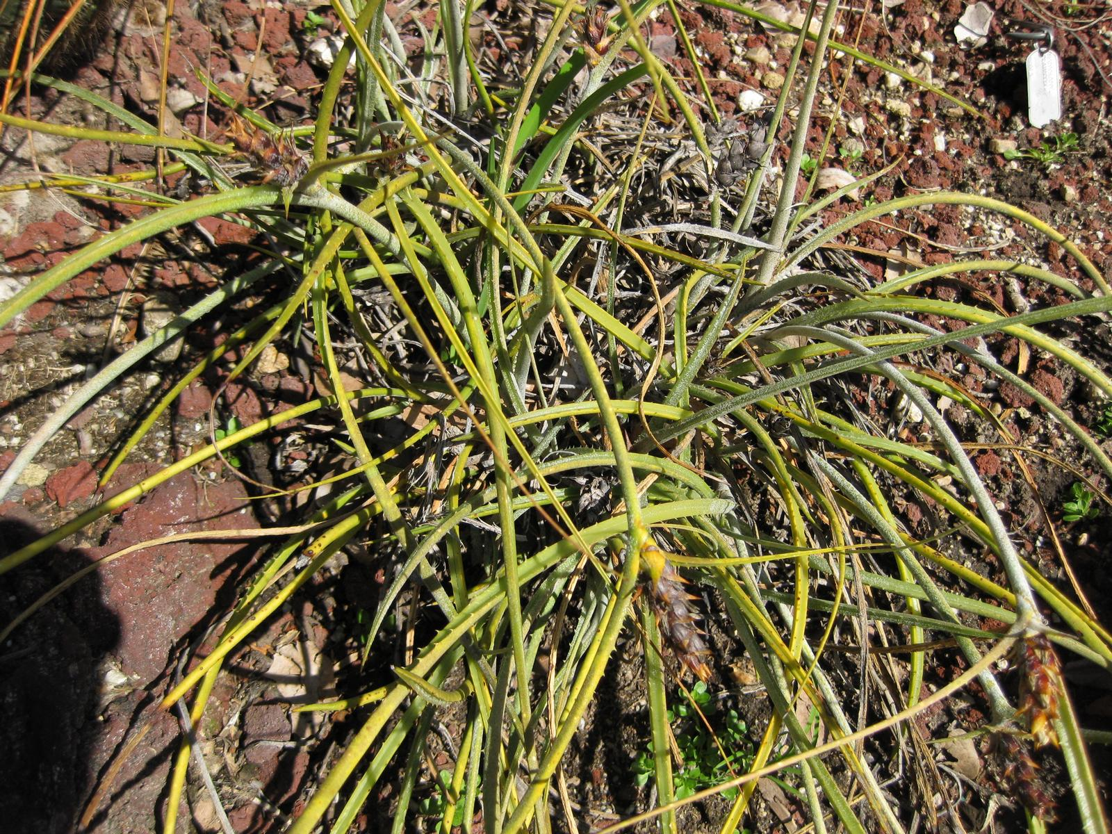 Photographed at Huntington Gardens (Los Angeles, California) in March